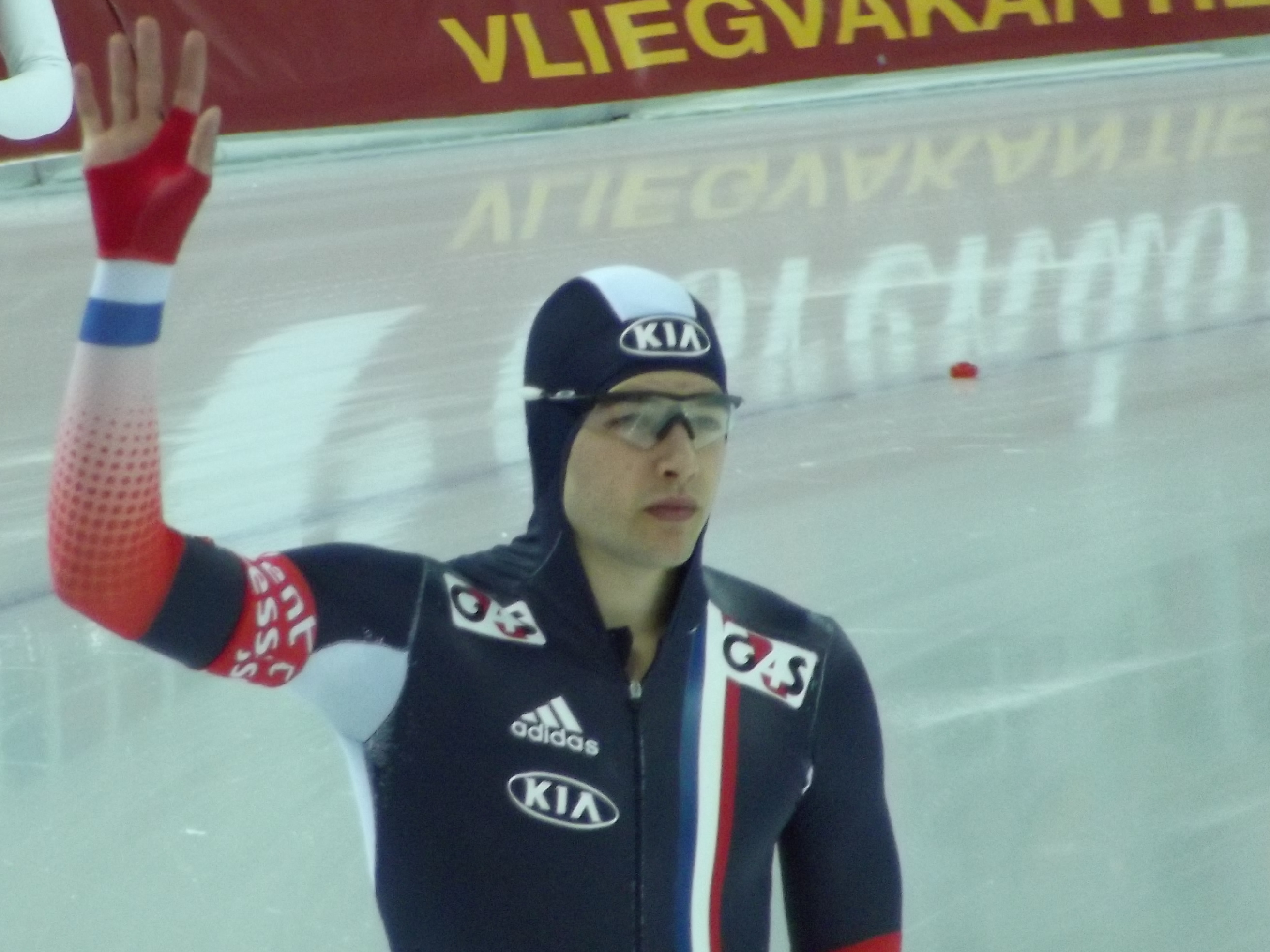 2013 World Single Distance Speed Skating Championships